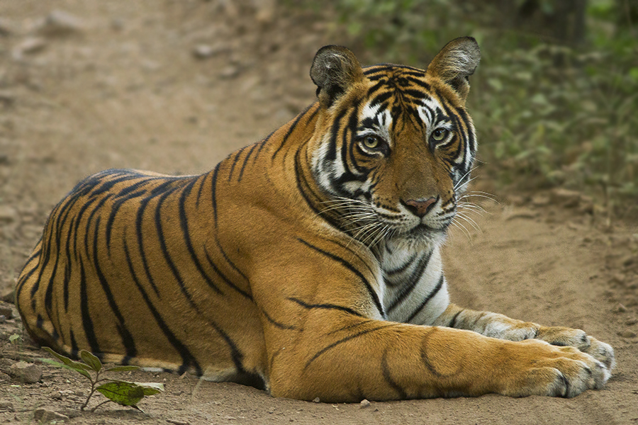 This tiger has been photographed from Ranthanbore, Sawai Madhopur, Rajasthan, India on 12.10.2014. This is a photograph of the tigress Noor, also known as T39.